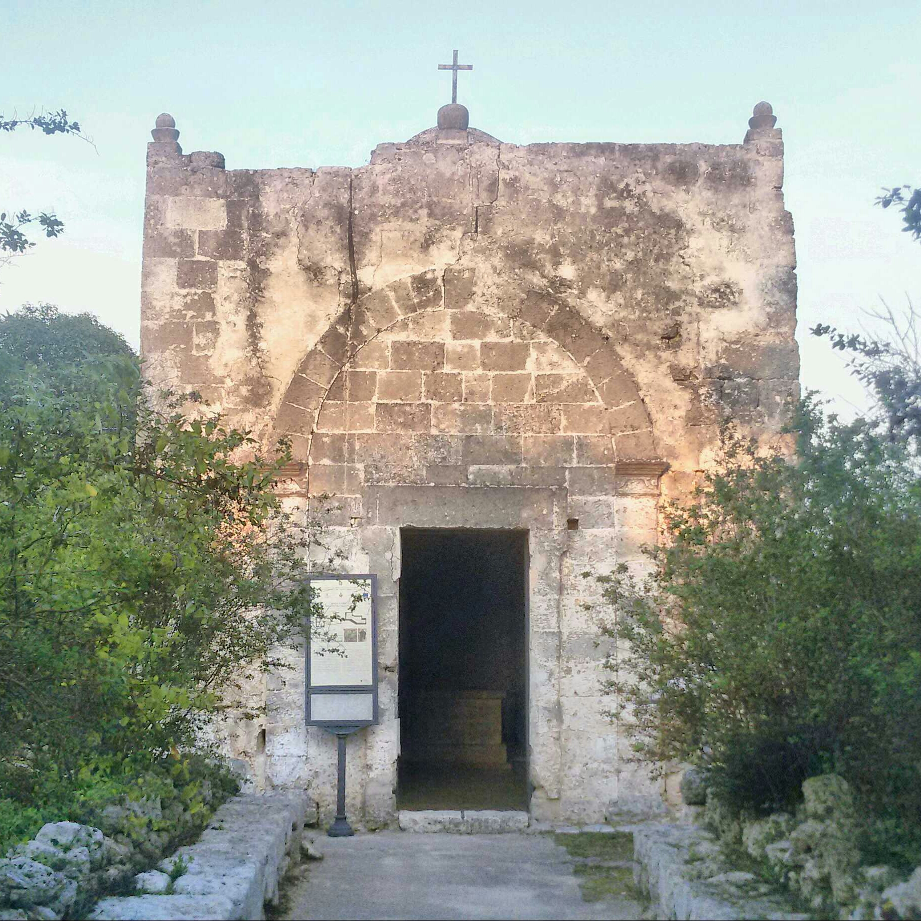 San Pietro Mandurino Church